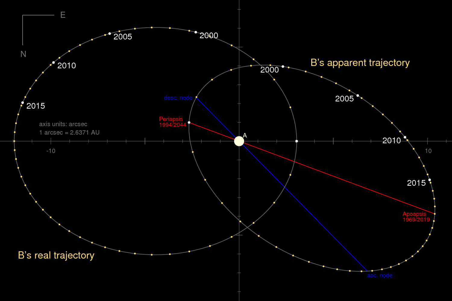 Trajectory of Sirius B relative to Sirius A as seen from Earth and as seen from above. The axis is scaled in arcseconds. The orbital parameters this plot is based on are taken from van den Bos (1960; used now in en.Sirius). The graph has been created with gnuplot based on data generated by solving Kepler's equation. Notes: 1. The time stamps refer to the motion as seen from Earth, i.e. delayed with respect to the true motion by the travel of light by about 8.7 years. North is down, as usual in many astronomical charts. 2. The points refer to steps of 1/50 of an orbit rather than to exact 1-year steps (which would be 1/50.09 of an orbit).